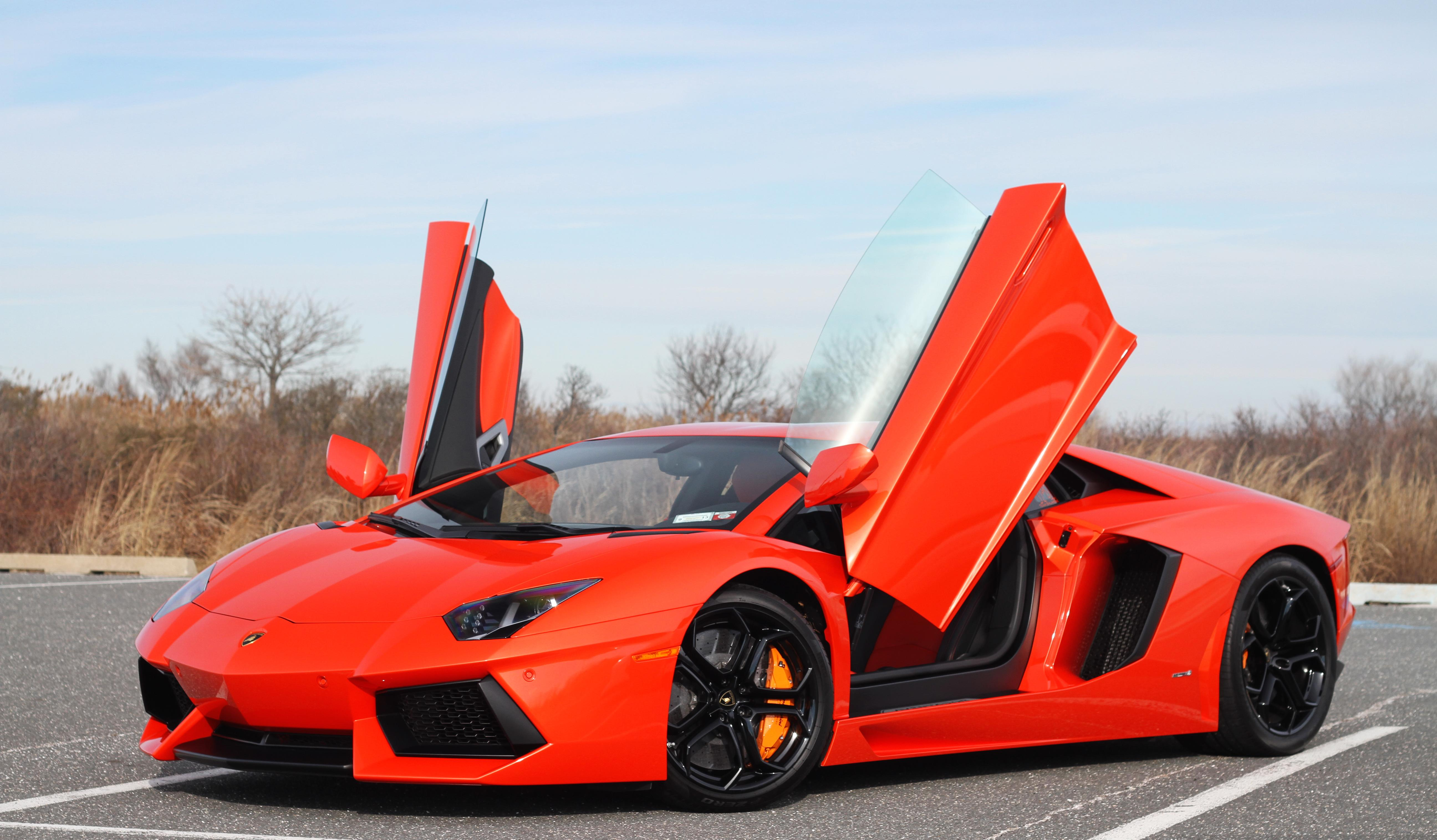 This car is just so incredible.